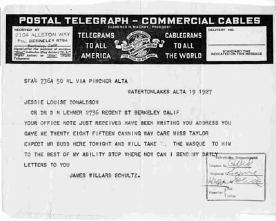 Title: Postal Telegraph James Willard Schultz Sent to Jessie Louise Donaldson Creator: James W. Schultz Date: 1927 Description: A postal telegraph James Willard Schultz sent to Jessie Louise Donaldson concerning where to send his letters to get ahold of her. Notes: None Object's Physical Description: application/pdf Keywords: telegraph, james willard schultz Topic(s): Clipping (publications) Object ID: 0010-B06-F15-8 • I represent Montana State University Library and we are releasing this image into the Creative Commons.